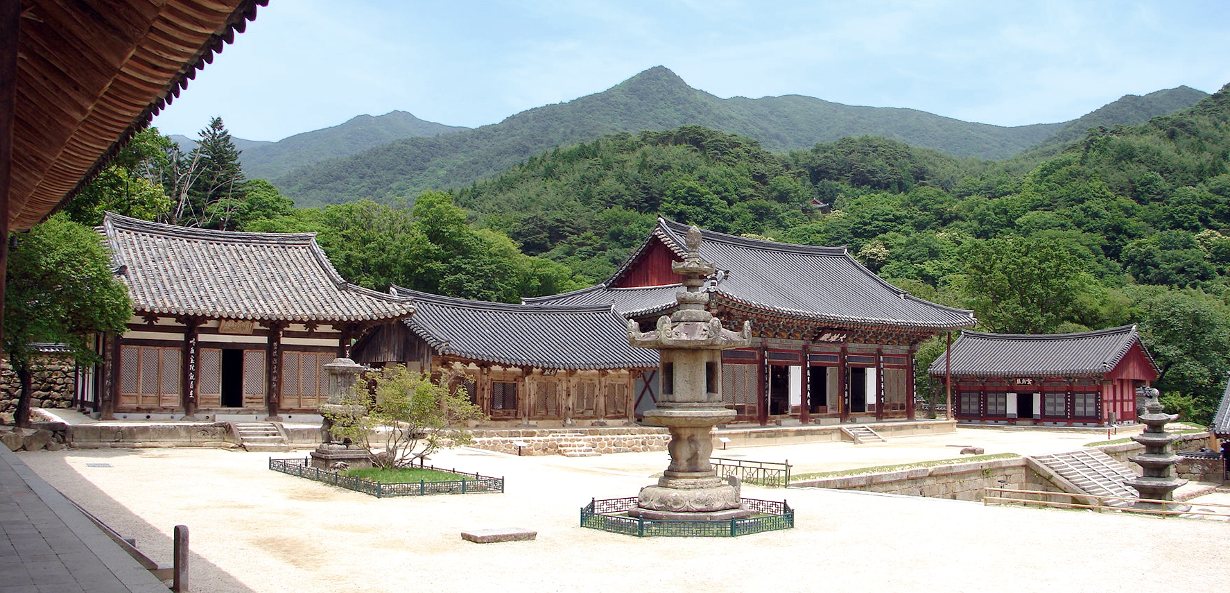 Hwaeomsa is a head temple of the Jogye Order located on the slopes of Jirisan, Gurye County, in Jeollanam-do, South Korea constructed under the Silla dynasty in 544, burned down during the Seven Year War in the 1590s, and then rebuilt.